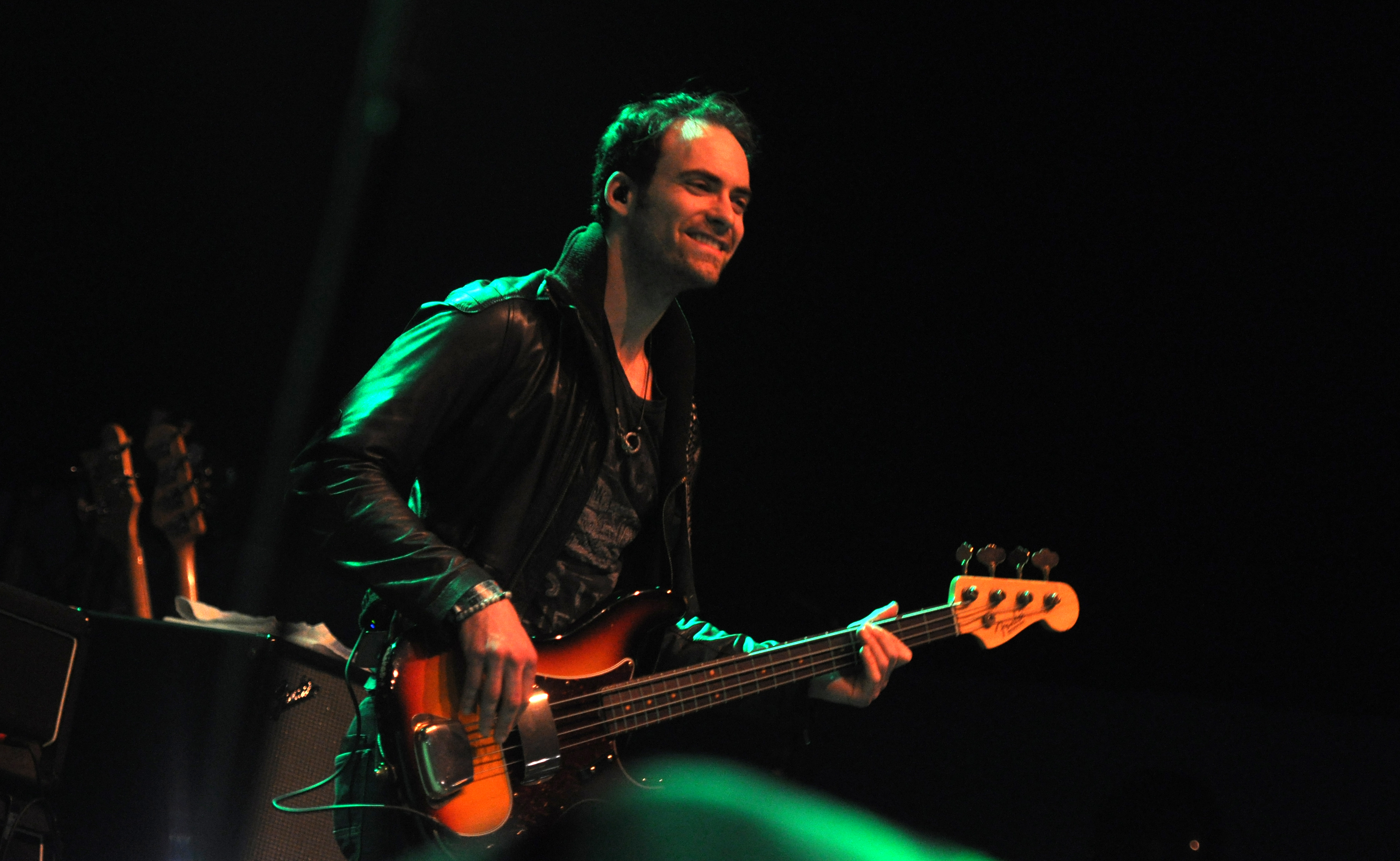 Halestorm at Paaspop 2014